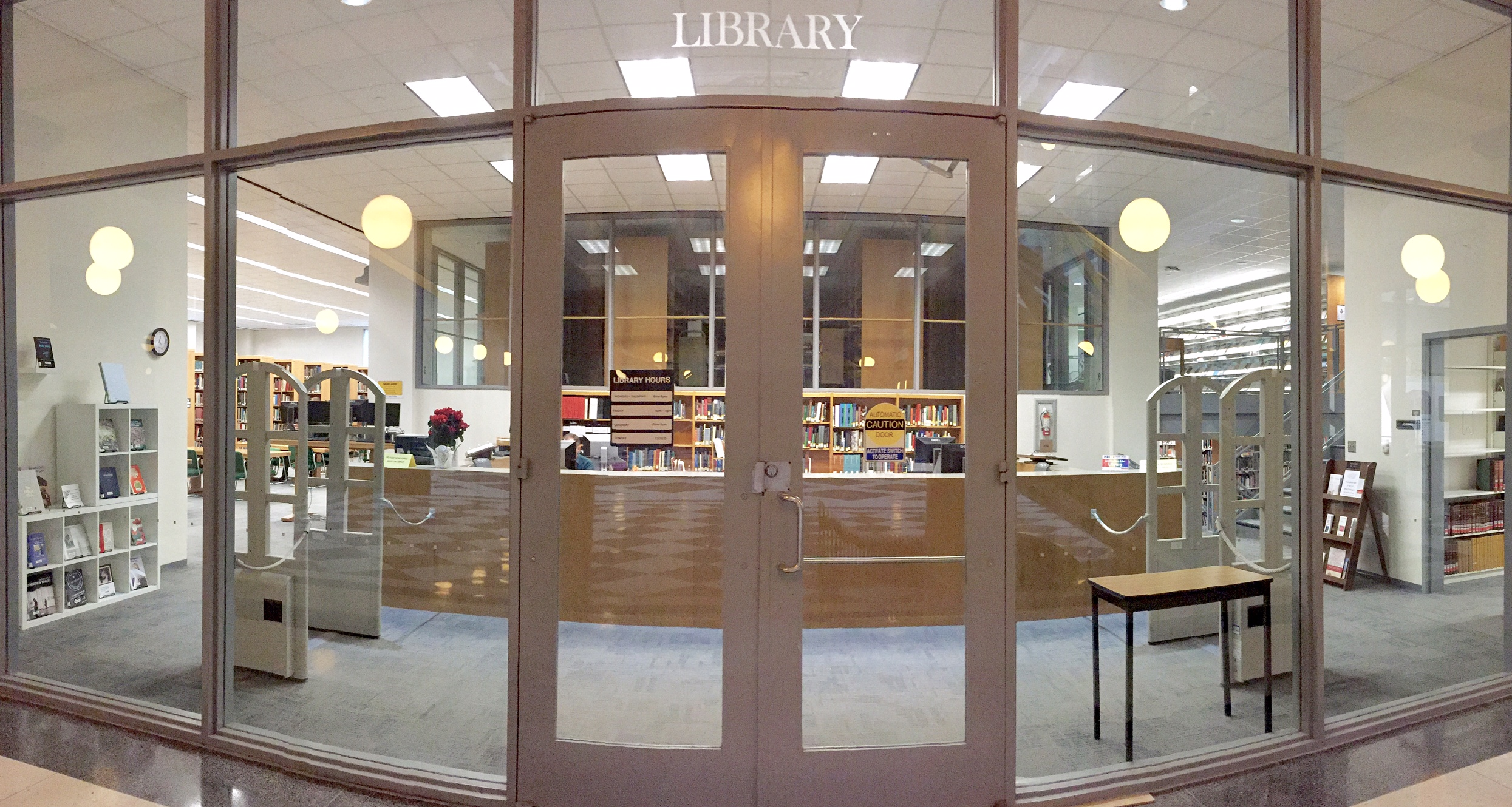 William R. Jenkins Architecture and Art Library Entrance